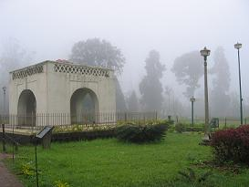 Raja seat at Madikeri, Photo taken by author himself